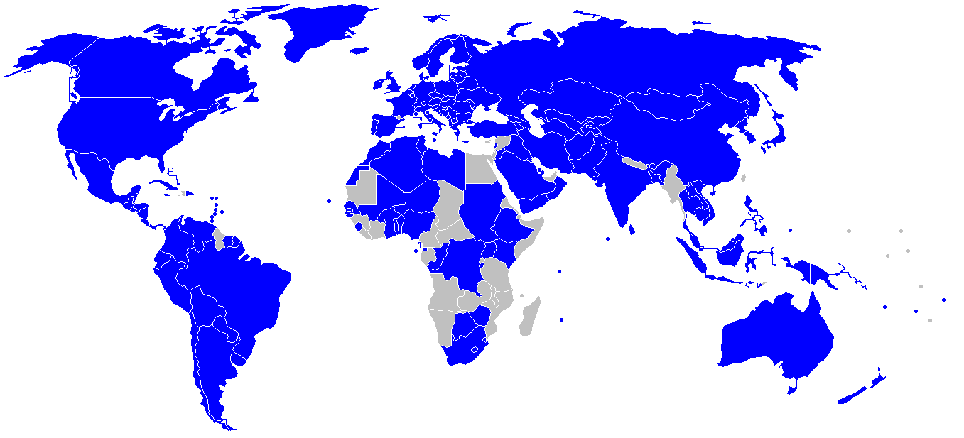 States parties to the Biological Weapons Convention